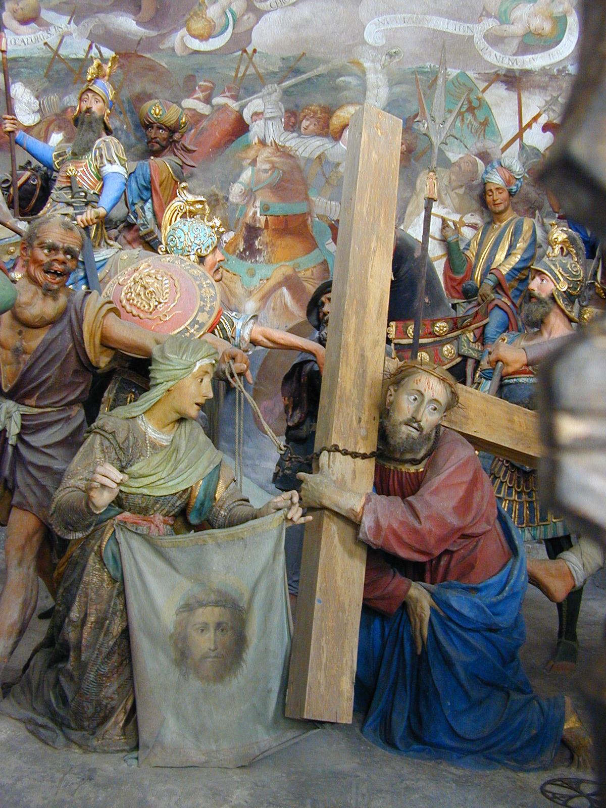 Sacro Monte di Varallo; Christ on the Road to Calvary, statues by Jan Wespin called "Tabacchetti" and Giovanni d'Enrico, 1599 -1600, Frescos by Pier Francesco Mazzucchelli, called "il Morazzone"(1607-8), Chapel XXXVI